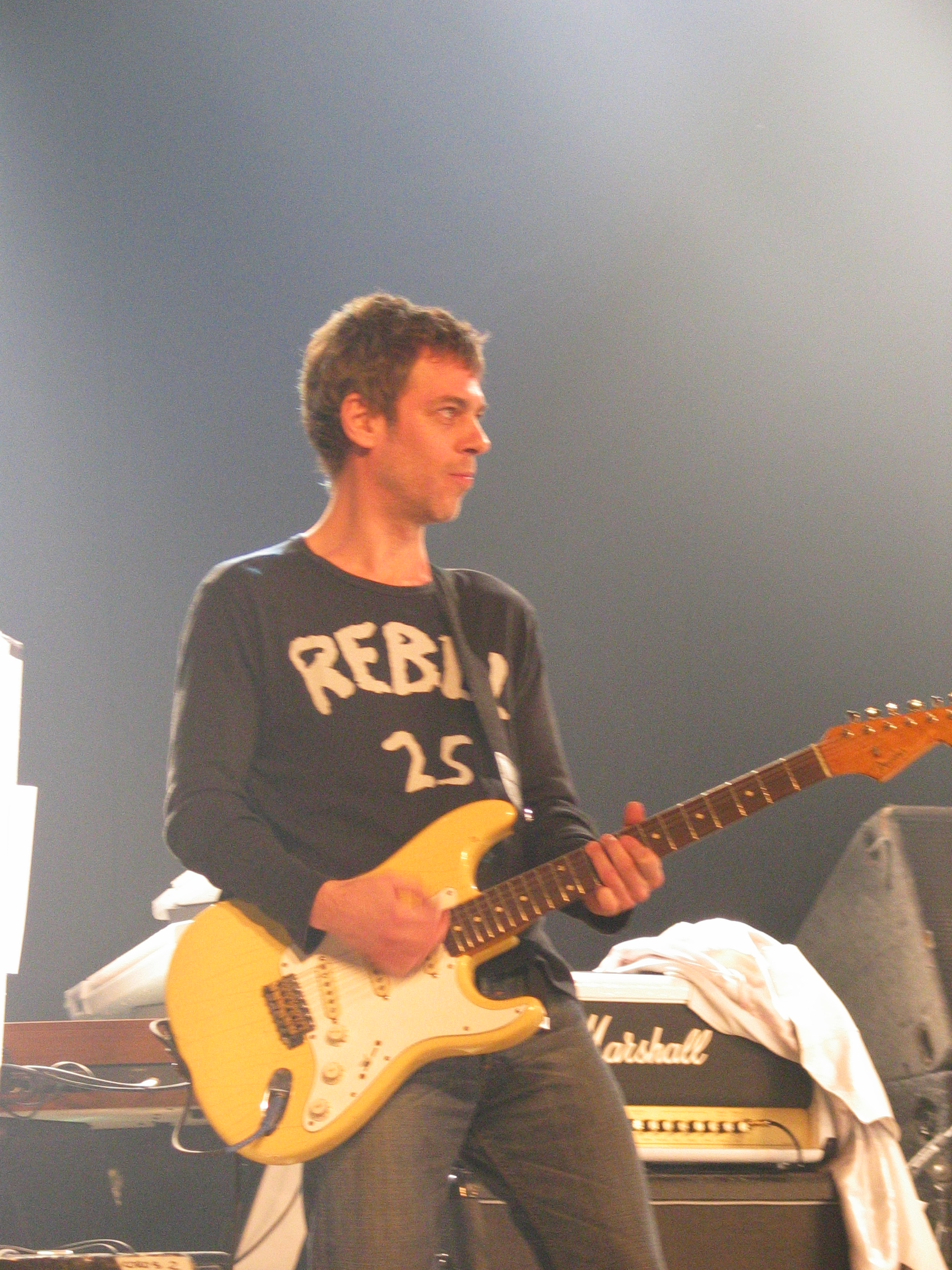 Rot playing live.